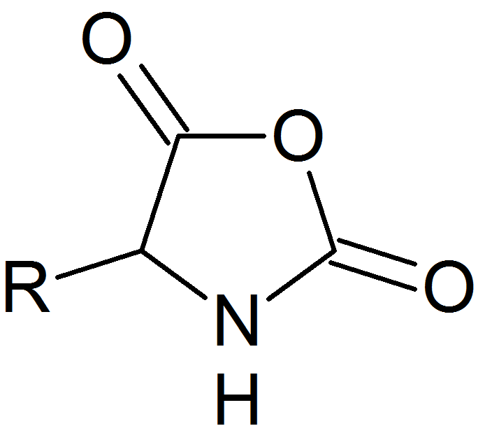 Structure of Leuchs' anhydrides